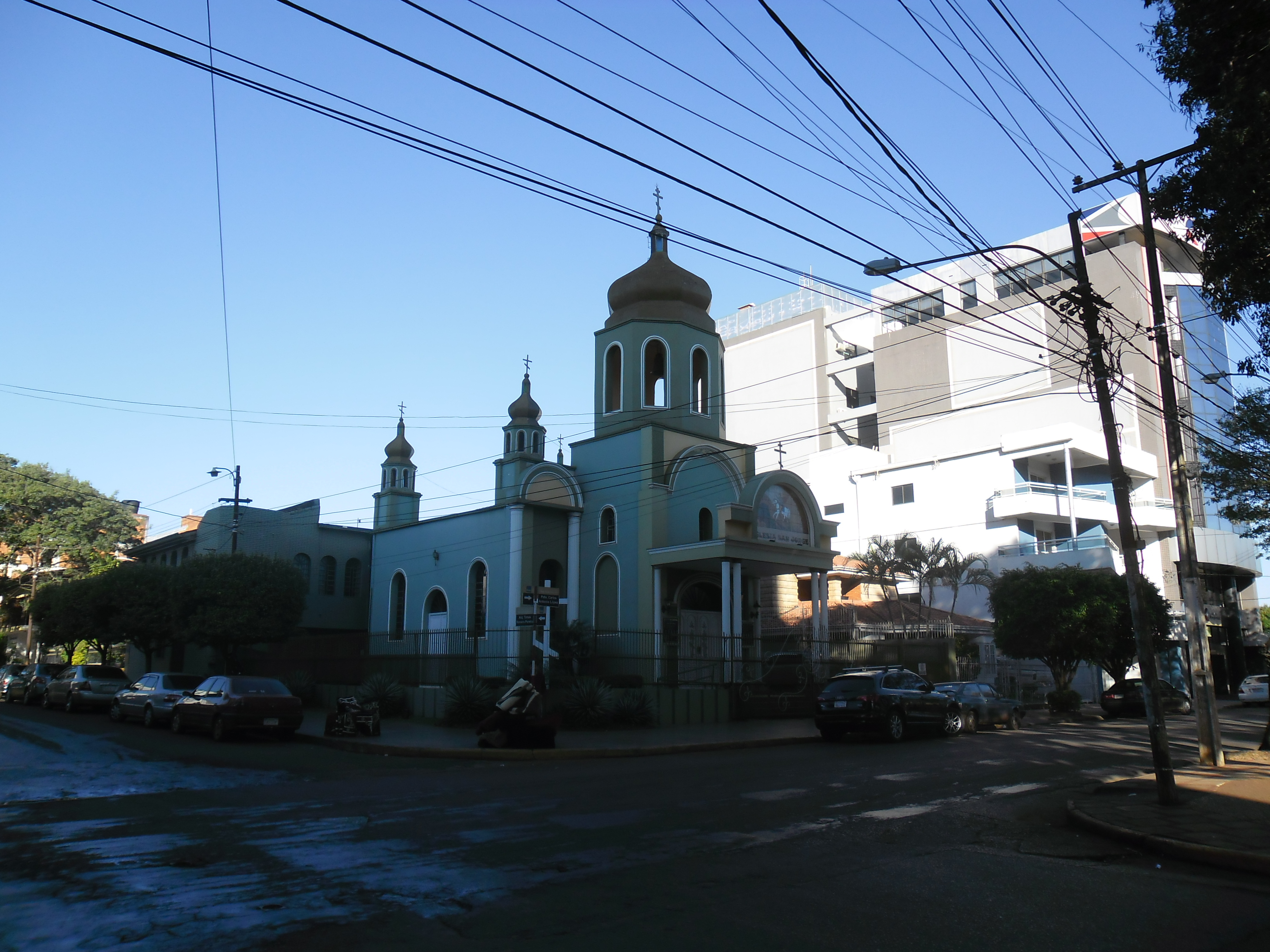 An Orthodox Church located in the city of Encarnación, Itapúa Department, Paraguay.